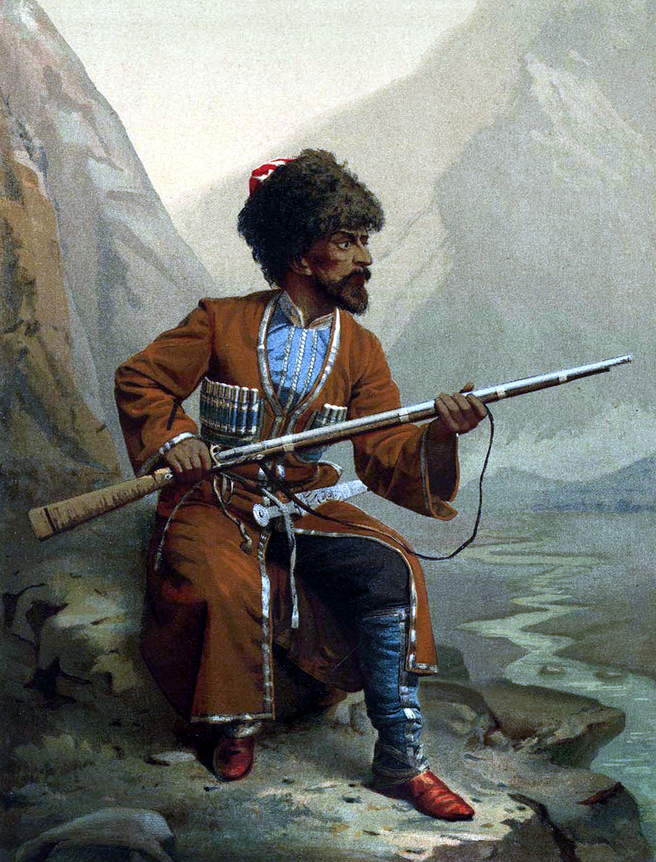 Warrior of Circassia during the Russian-Circassian War from here over 100 years old.